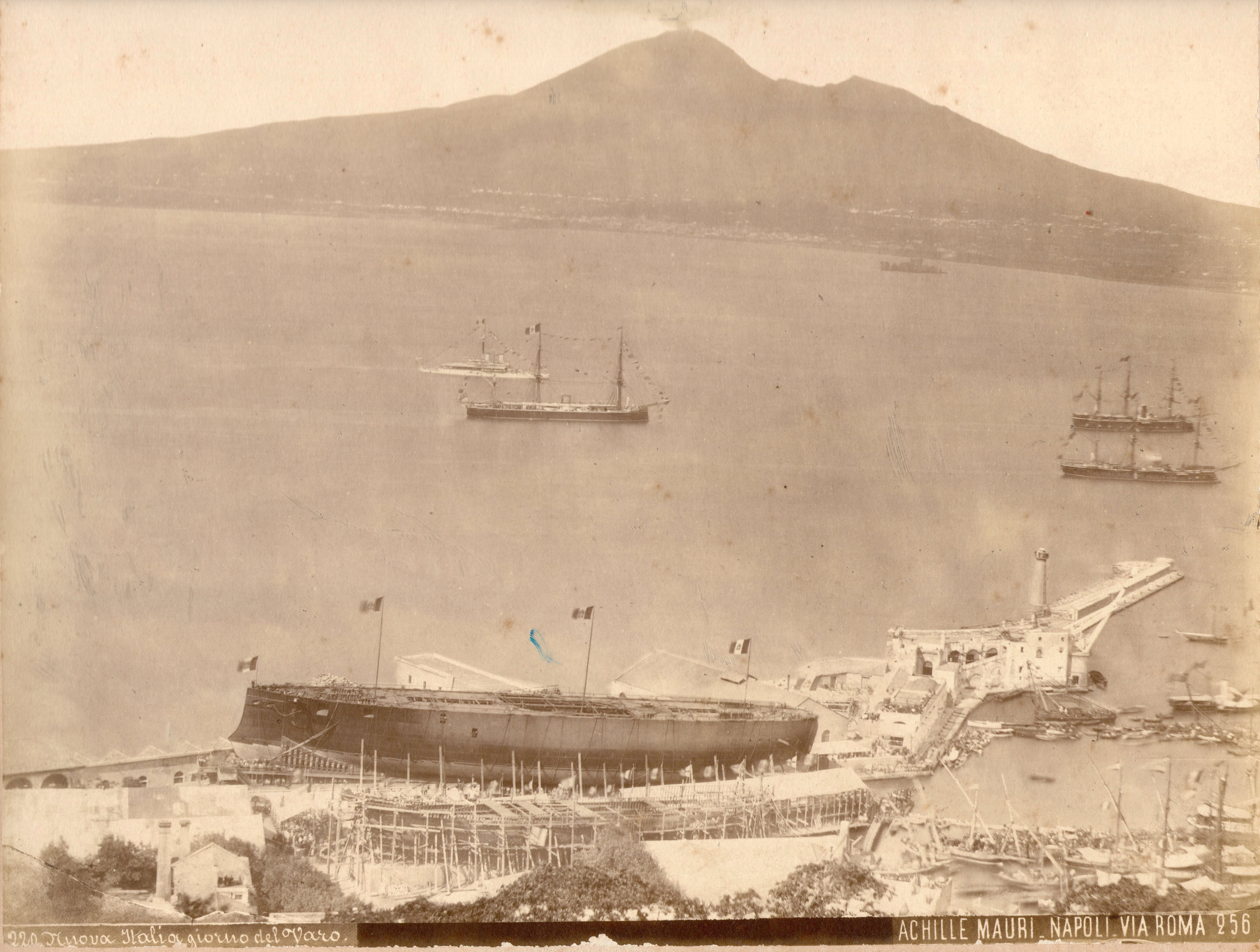 Italy, Regia Marina. The Italian battleship Italia taken the day of the launch at Cantiere navale di Castellammare di Stabia on September 29, 1880.